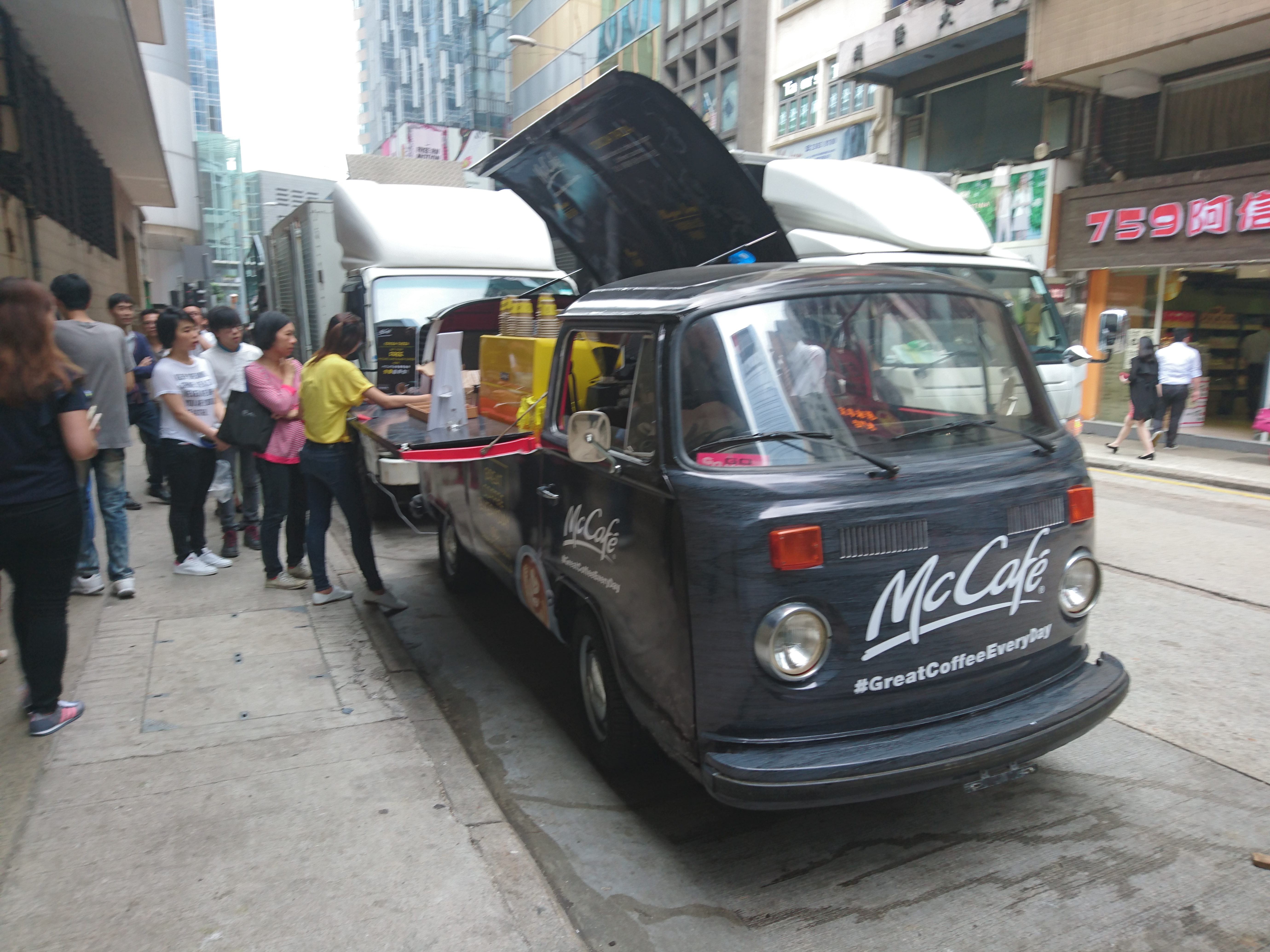 McCafe Track on Queen Victoria Street